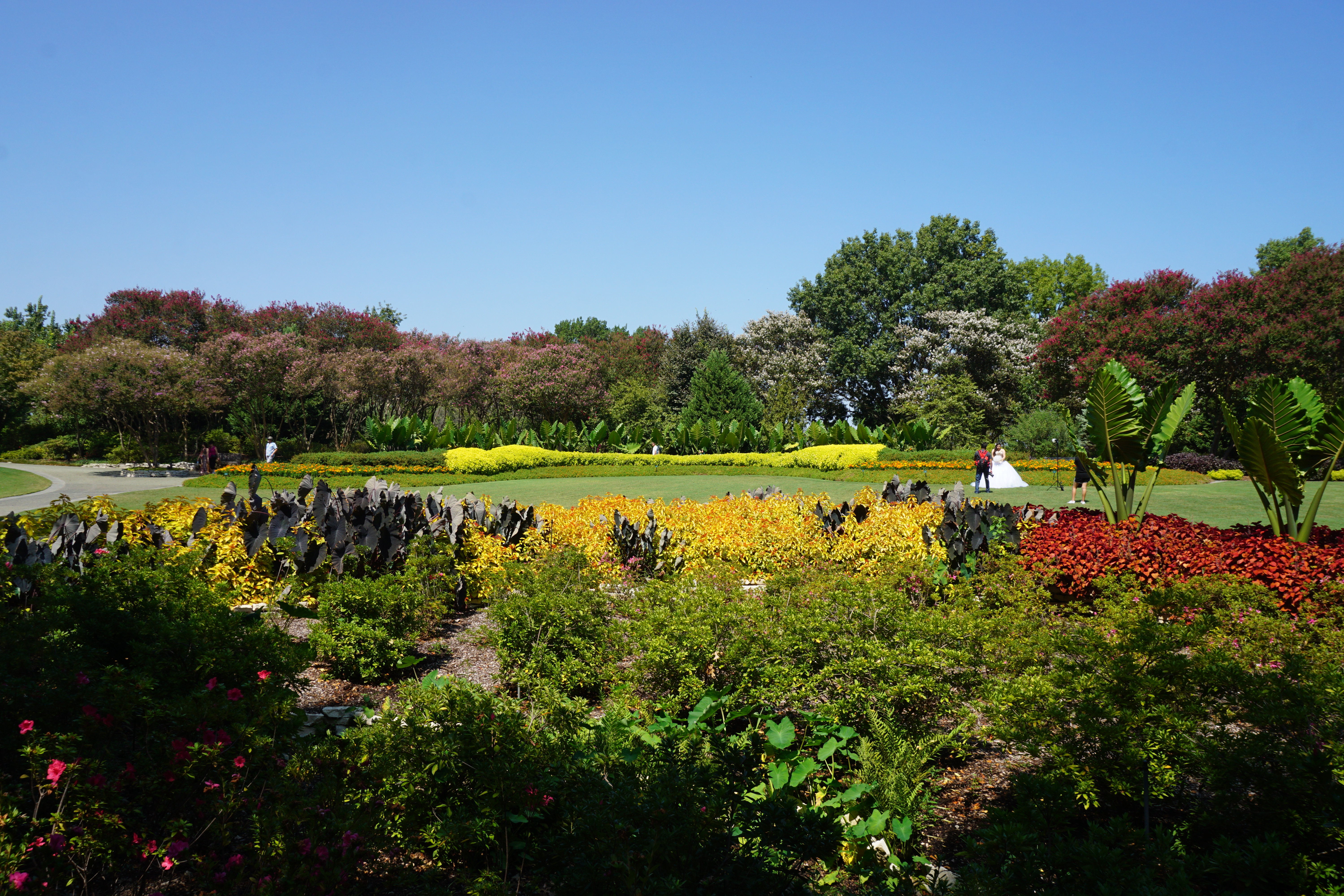 The Jonsson Color Garden at the Dallas Arboretum and Botanical Garden in Dallas, Texas (United States).